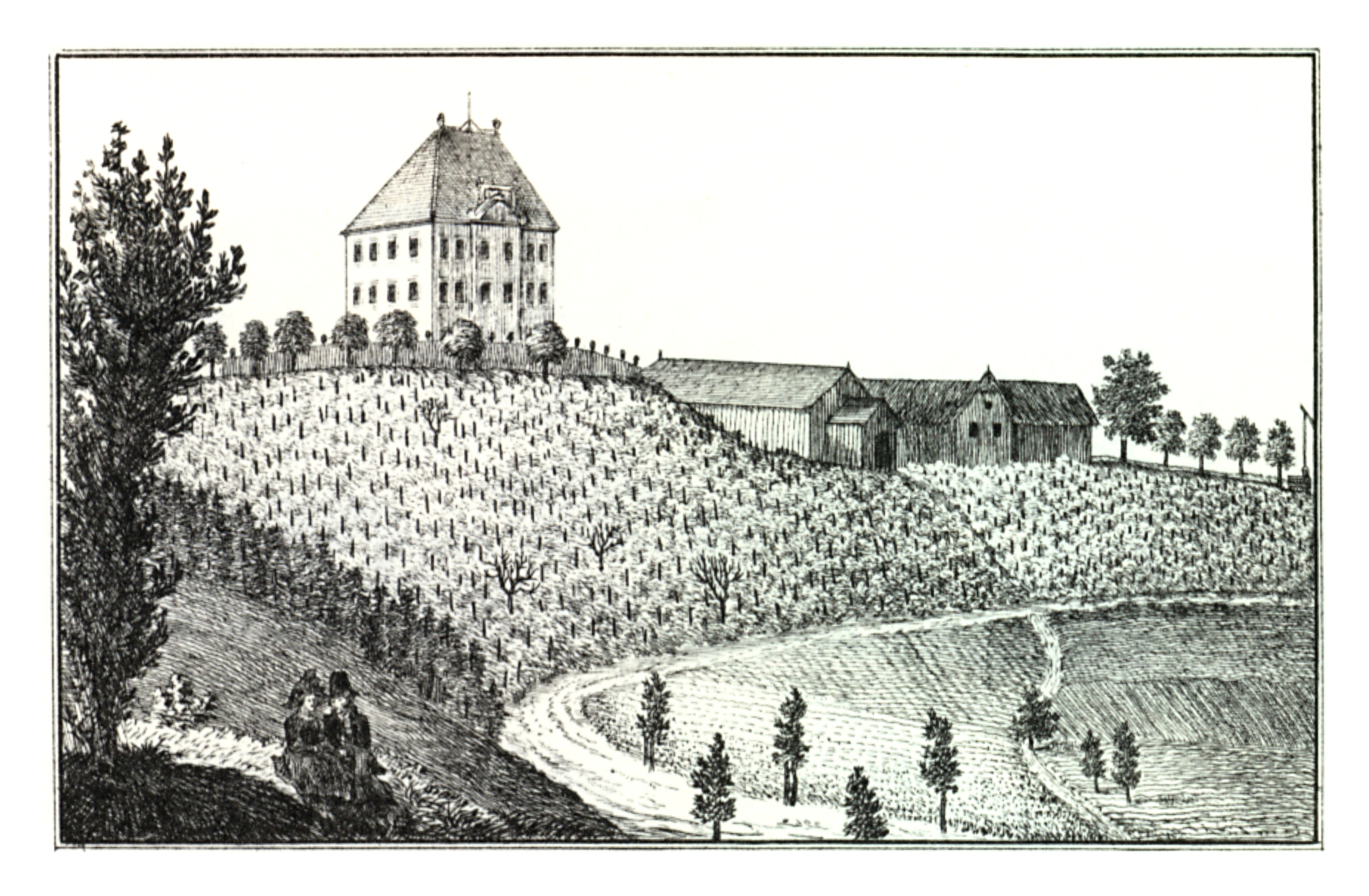 J. F. Kaiser - lithographirte Ansichten der Steyermärkischen Städte, Märkte und Schlösser Graz, 1825 Scanprojekt Community Projektbudget 2012 This scan or this PDF-file was created within the GLAM-project Bookscanning, supported by Wikimedia Germany and Wikimedia Austria as a part of the community-project to capture books, documents and pictures which are not eligible to copyright or for which the copyright has expired. This document describes or depicts an object which is located in Austria today. Send requests for uncompressed scans to Hubertl. This work is in the public domain in its country of origin and other countries and areas where the copyright term is the author's life plus 100 years or fewer. You must also include a United States public domain tag to indicate why this work is in the public domain in the United States. This file has been identified as being free of known restrictions under copyright law, including all related and neighboring rights.